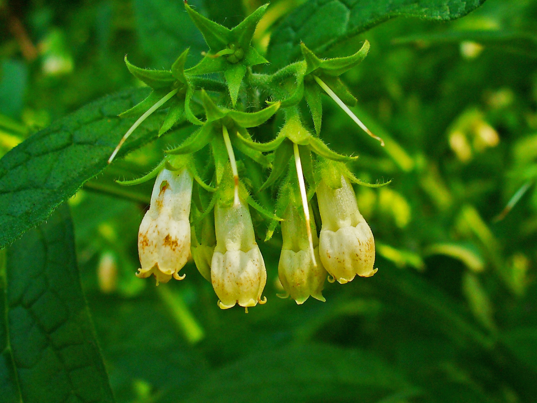 Symphytum officinale, Boraginaceae, Comfrey, Blackwort, inflorescence. Karlsruhe, Germany.